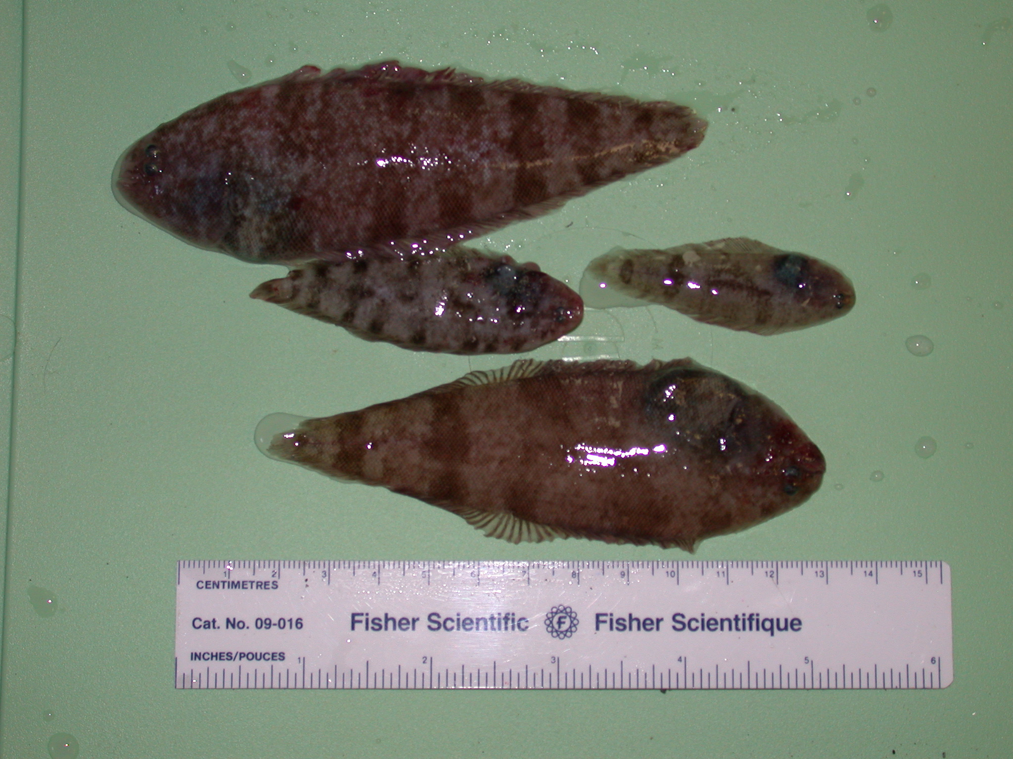 Four tonguefish (Symphurus thermophilus) samples from Nikko volcano.